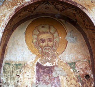 Saint_Demetrius_Church_in_Pomenovo.